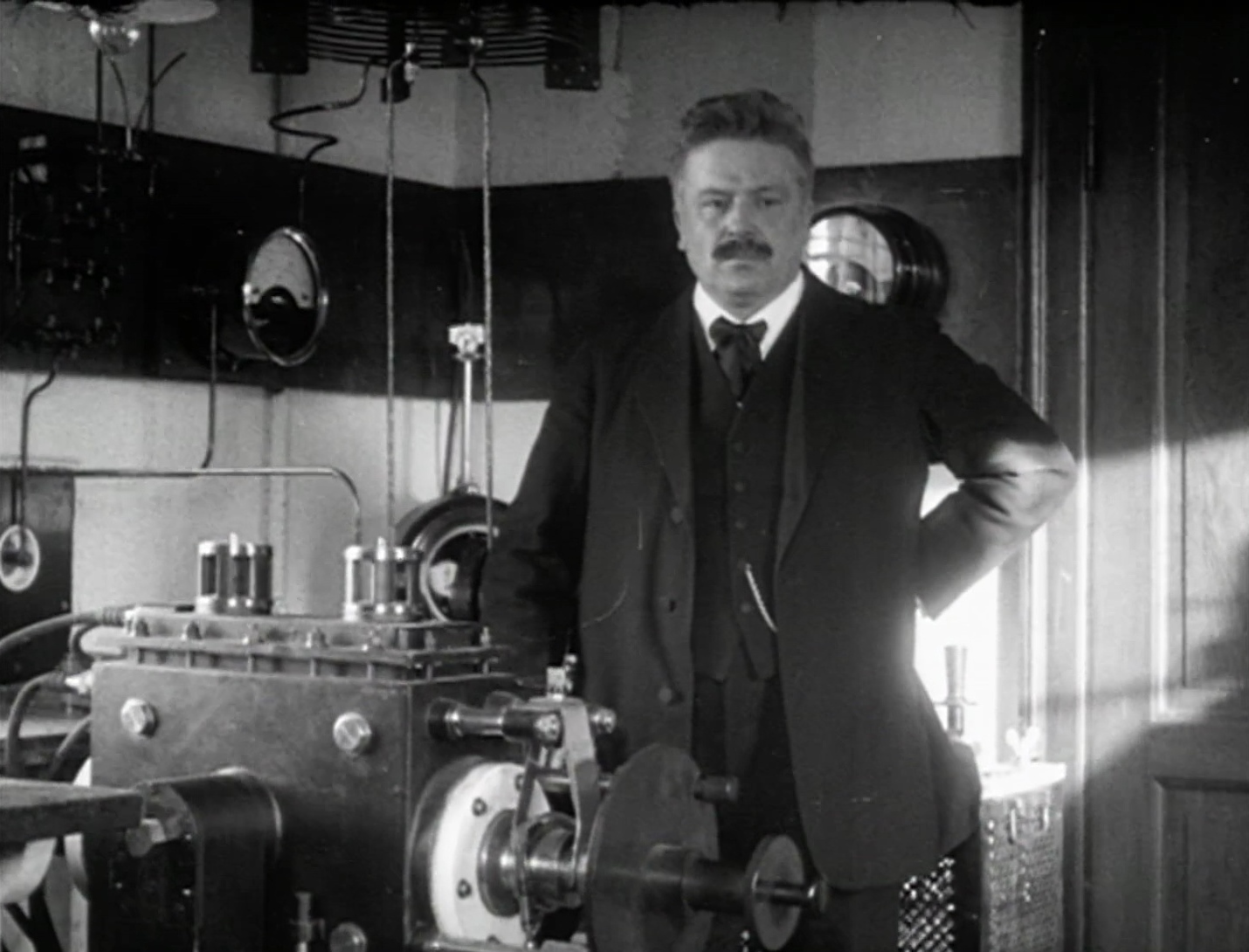 Screenshot from the Danish silent film "Ingeniør Valdemar Poulsen paa sin Station for traadløs Telegrafi" featuring the engineer Valdemar Poulsen at his station for wireless telegraphy and telephony.